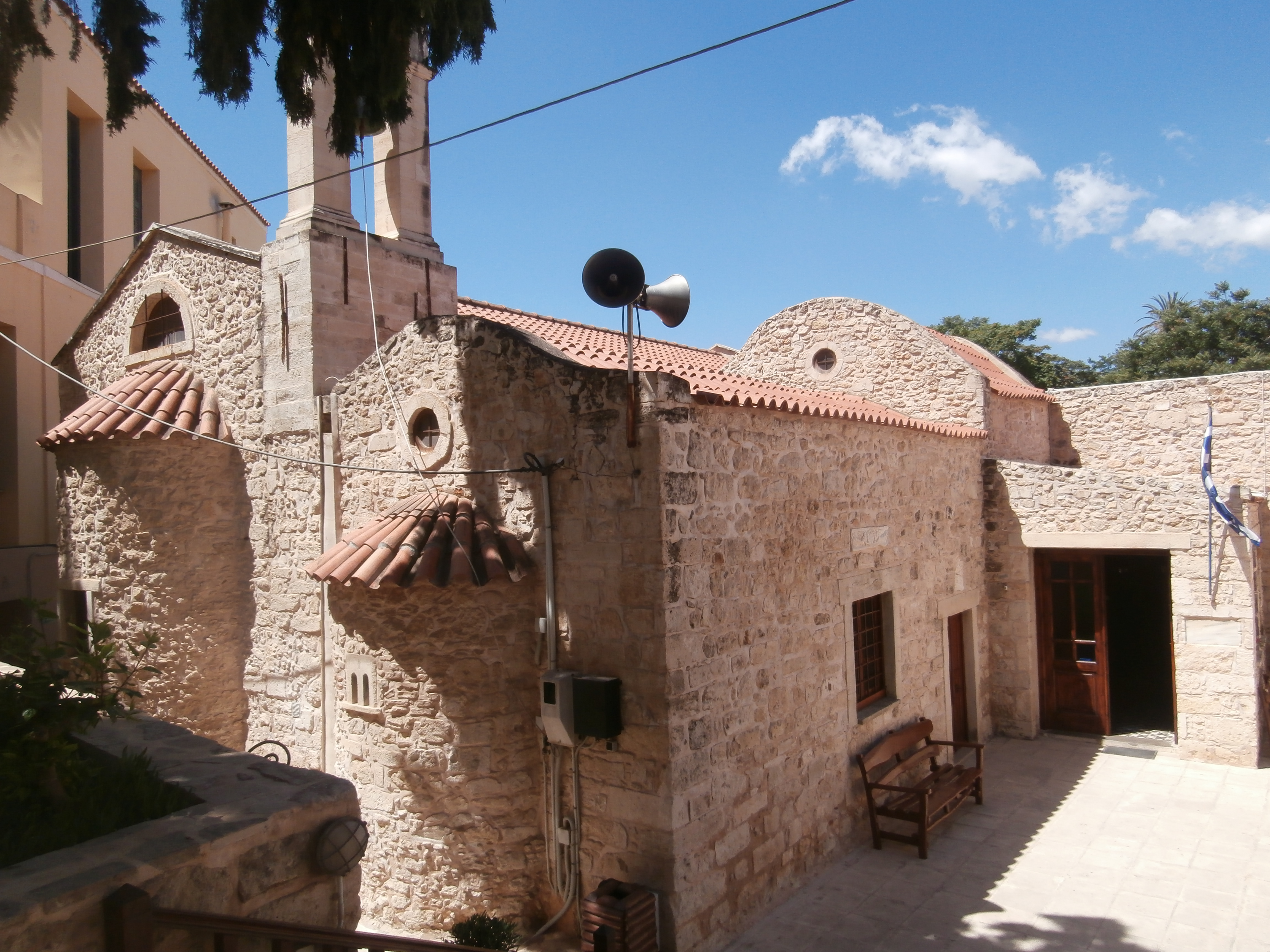 St Matthew of the Sinaites. Byzantine church in Heraklion.